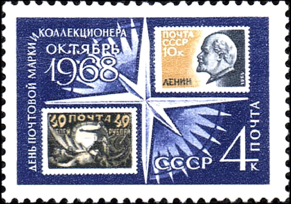 USSR stamp: Stamps CPA 7 и 3191 and Compass Rose (Stamp Day and the Day of the Collector). Series: Stamp Day and the Day of the Collector. Letter Writing Week